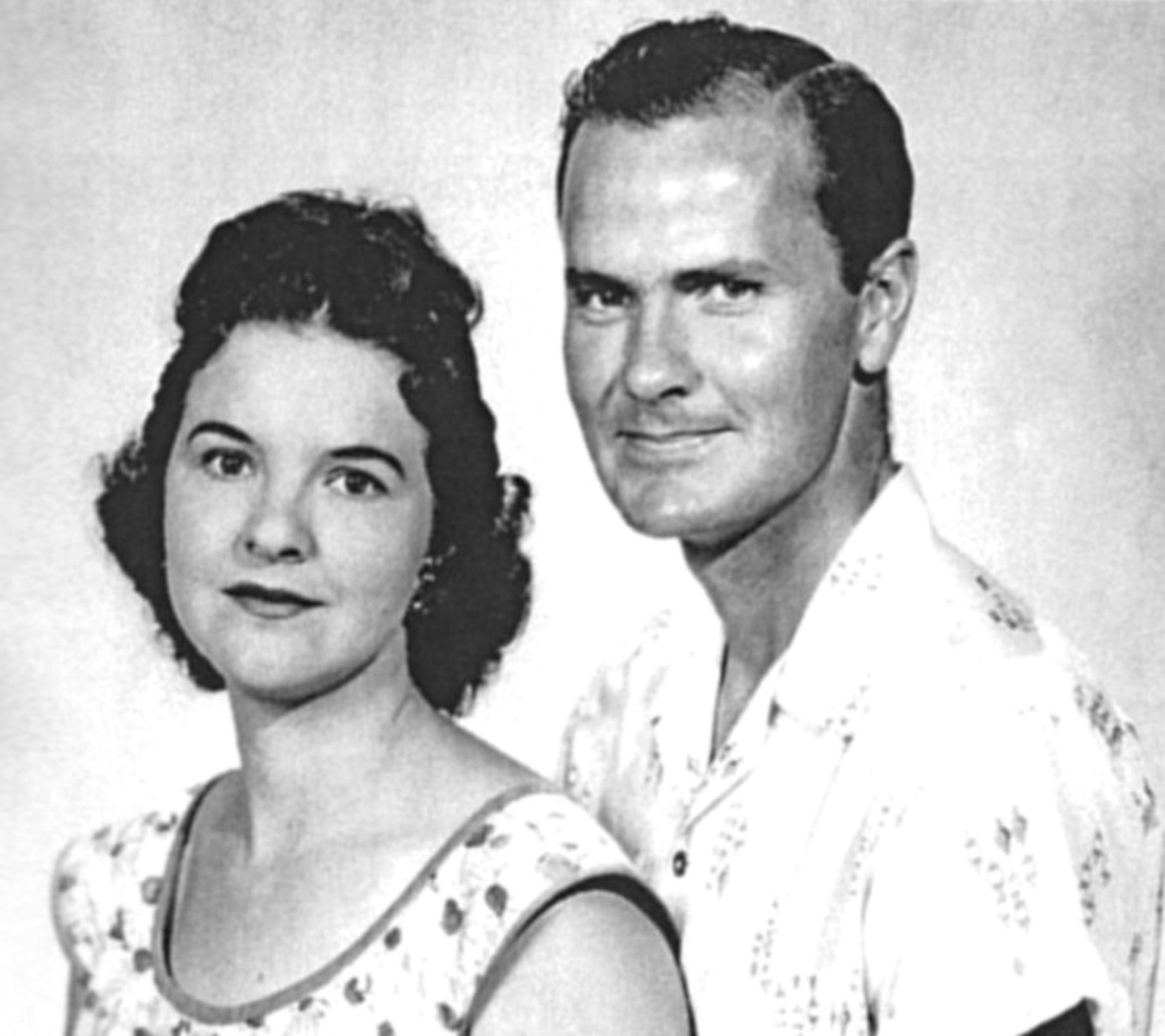 Sailplane Pioneer Wally Scott and Wife Boots